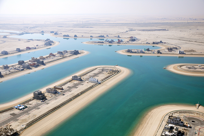 Sea City has pioneered many construction challenges and techniques in Kuwait.